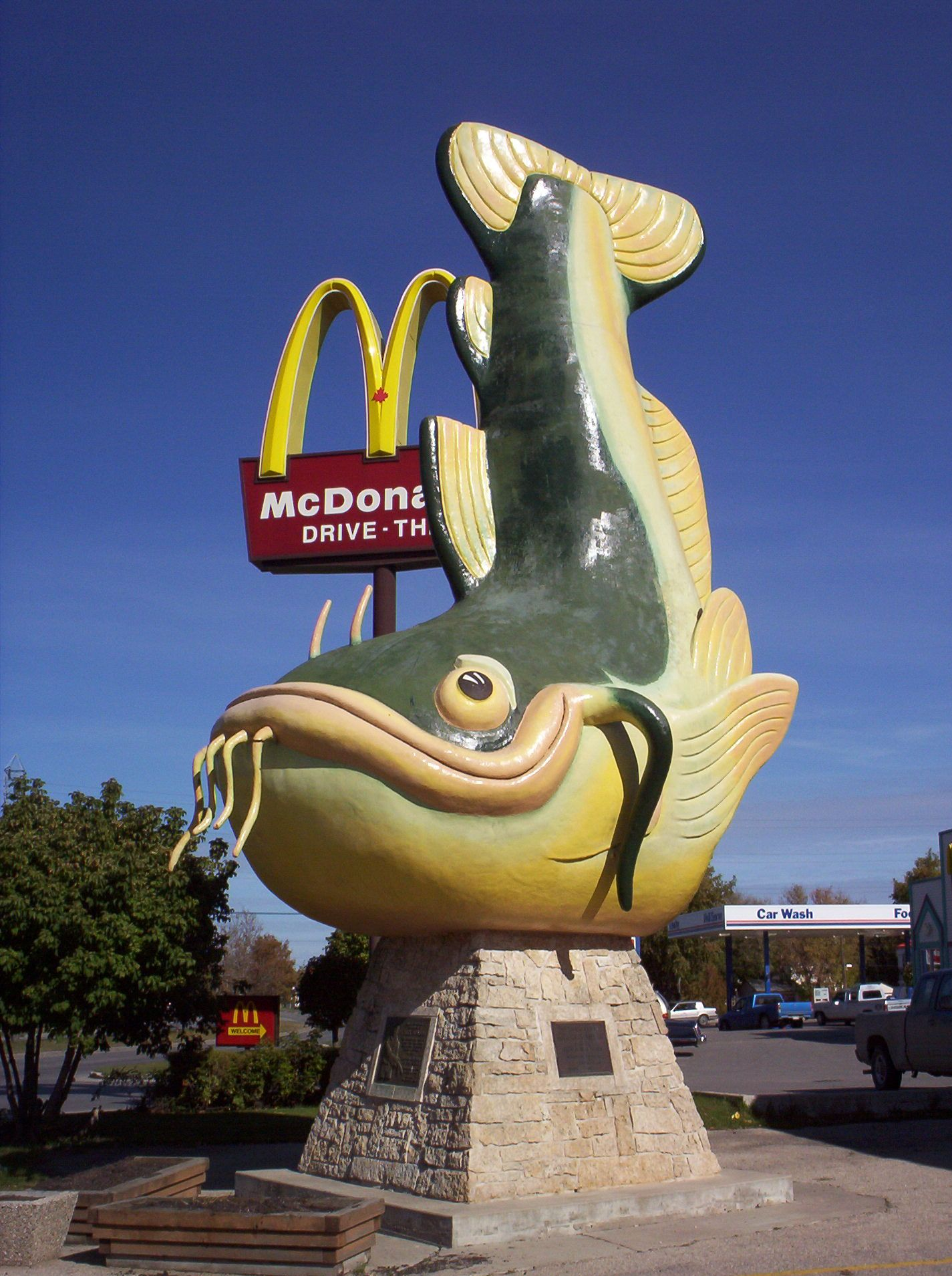 Chuck the Catfish, roadside sculpture in Selkirk, Manitoba Canada , built in 1986